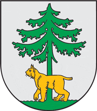 coat of arms of the city of Jēkabpils, Latvia.